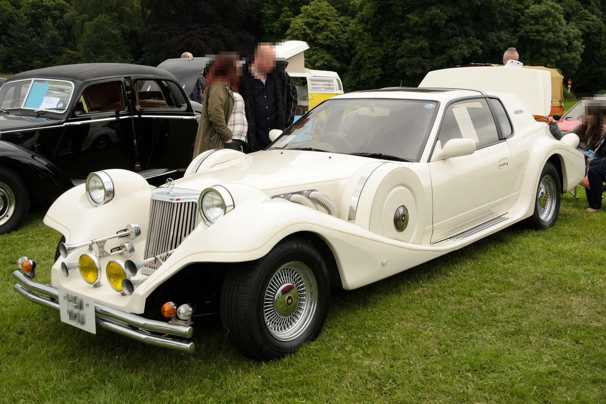 Mitsuoka Le-Seyde first generation (1990-1993)